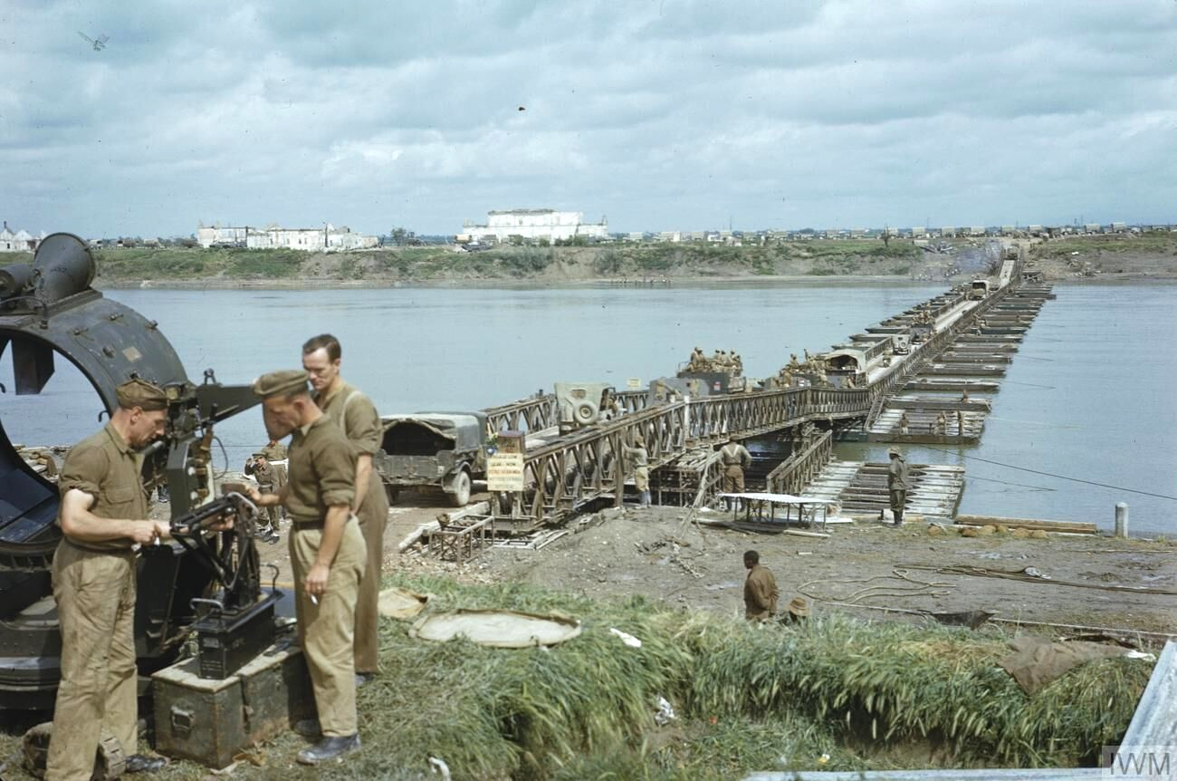 British Eighth Army Troops Crossing the River Po, Beyond Ferrara, Italy, 28 April 1945 British Eighth Army traffic crossing the first pontoon Bailey bridge, constructed by the Royal Engineers, over the River Po. In the foreground men of the Royal Artillery are constructing a searchlight to facilitate night time use of the bridge.